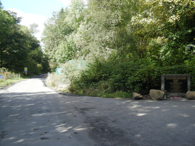 Shankly Memorial and lane to Glenbuck. The village of Glenbuck is now part of an open-cast mine and not accessible.